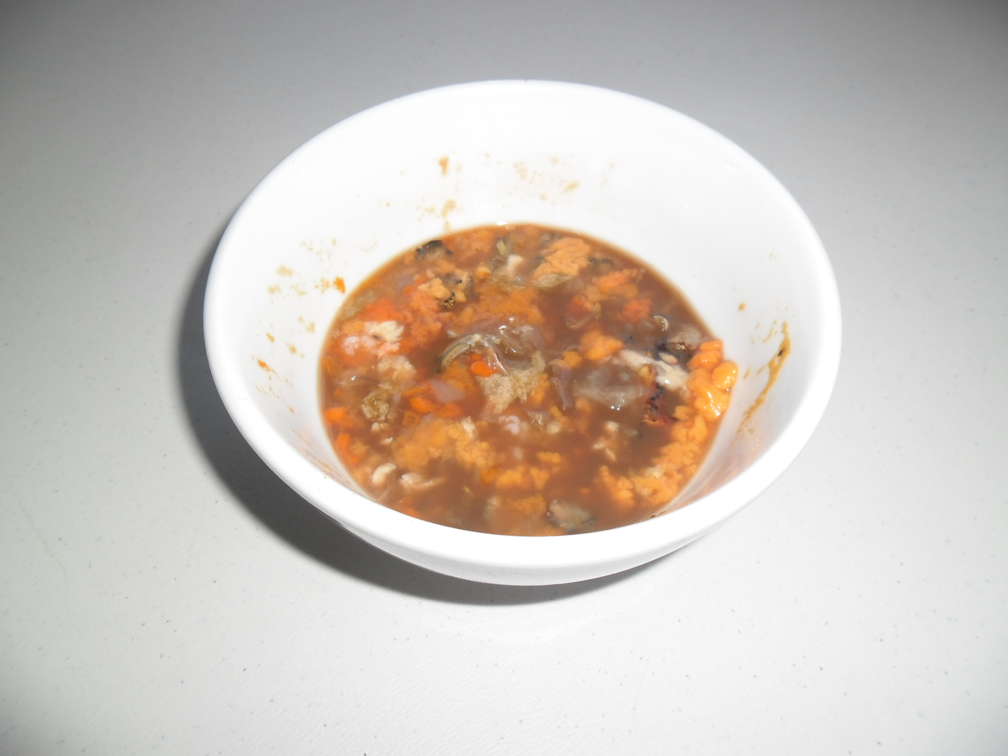 Crab roe freshly took out from carapaces of shore crabs using for Bun Rieu Cua (Crab noodles in Vietnamese cuisine)